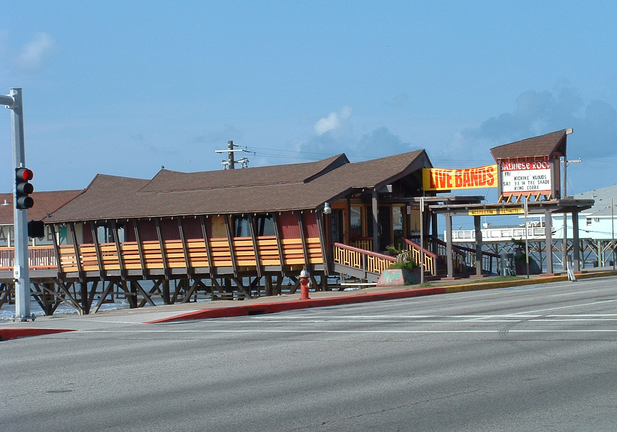 Balinese Room, Galveson, Texas, in 2006.